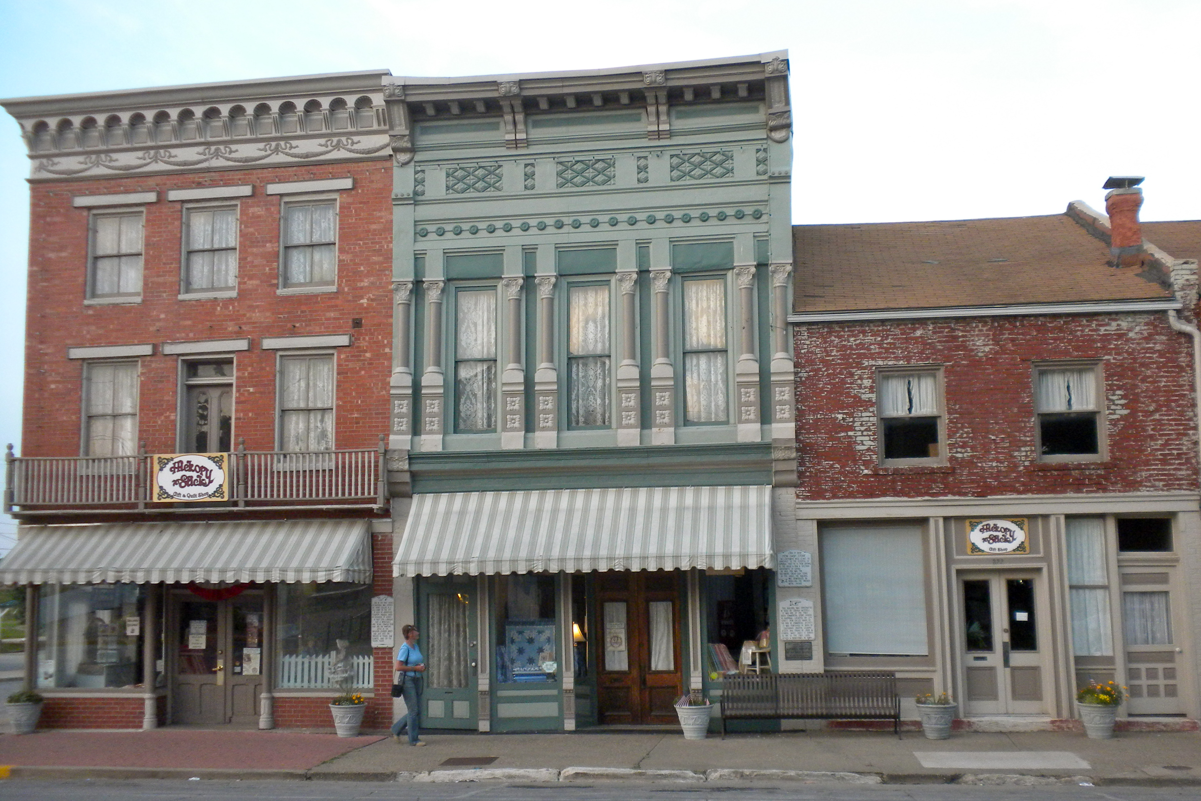 Buildings in Mark Twain Historic District . The district, which has been on the NRHP since January 4, 1978, is on Bird, Main, and Hill Sts., Hannibal, Missouri, near Samuel Clemens's boyhood home. These particular buildings are on the SE corner of Hill and Main (the "boyhood home" is slightly up Hill Street from the NW corner). From the NRHP plaques on these buildings and from other informational material posted on them, the most important of these buildings is the one on the corner (left). though it has been expanded to 3 floors and renovated, on the 2nd floor Clemens learned to set type there.